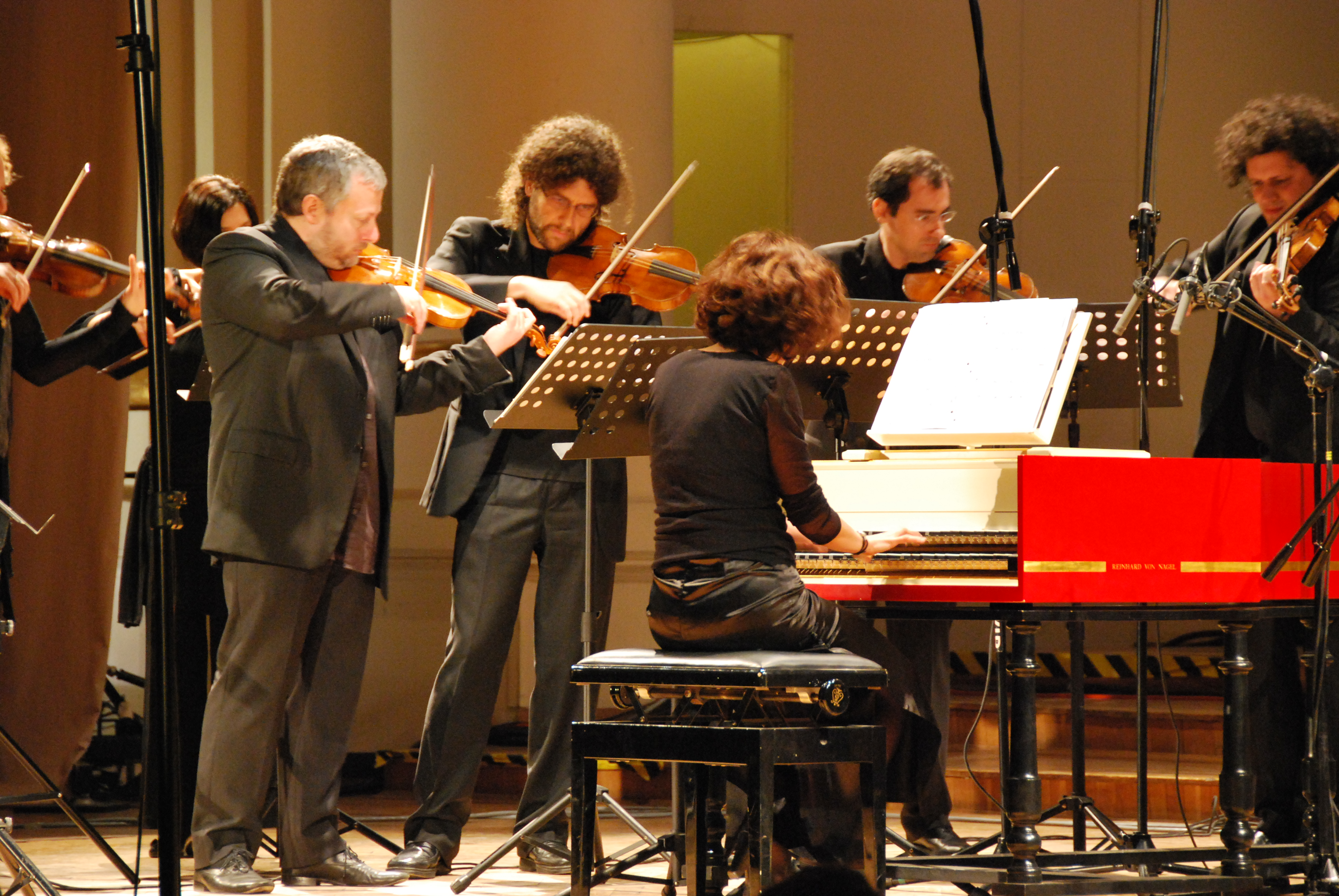 Europa Galante, Misteria Paschalia Festival, Kraków Philharmonic, 05.04.2010.